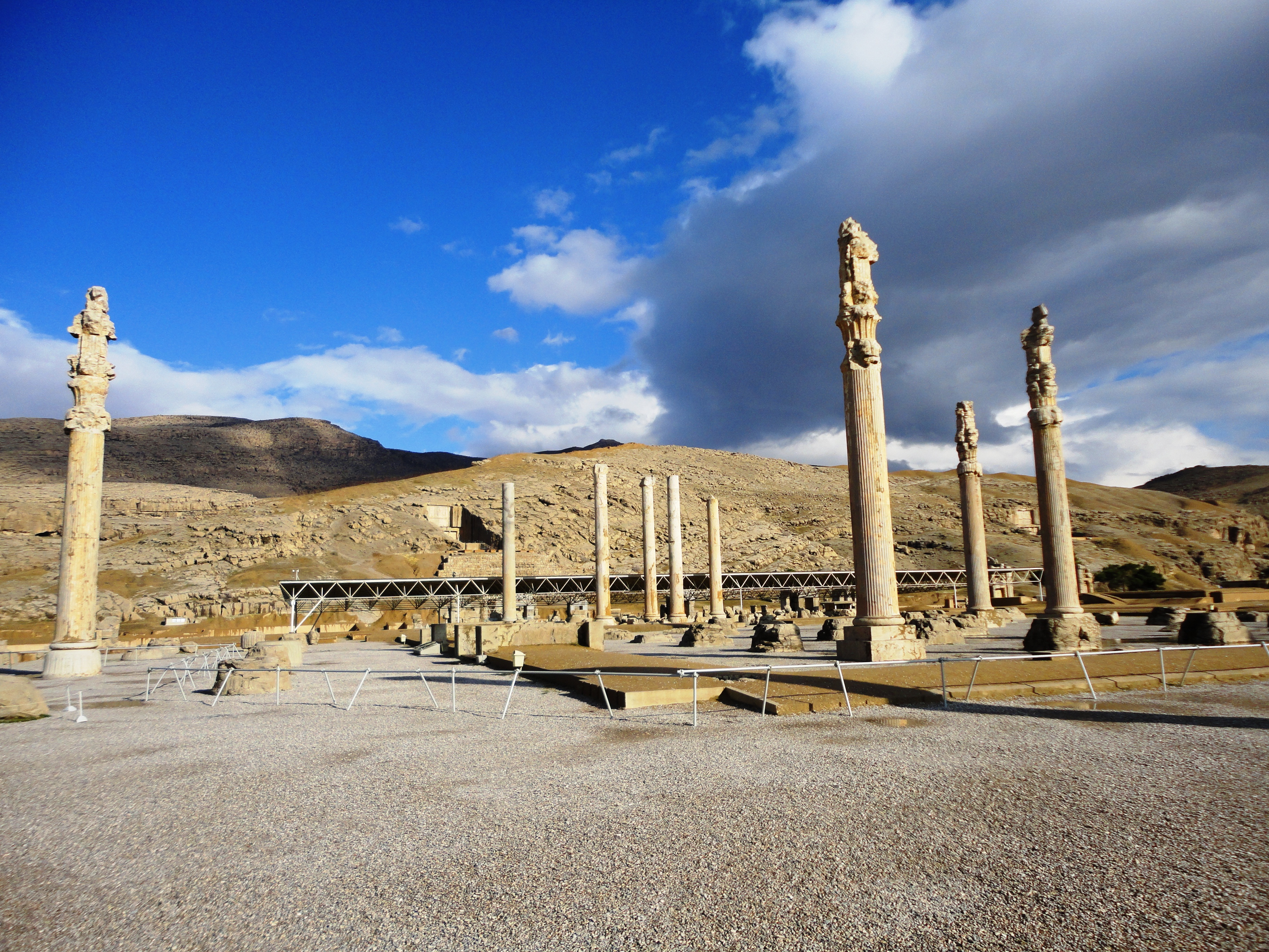 Persepolis